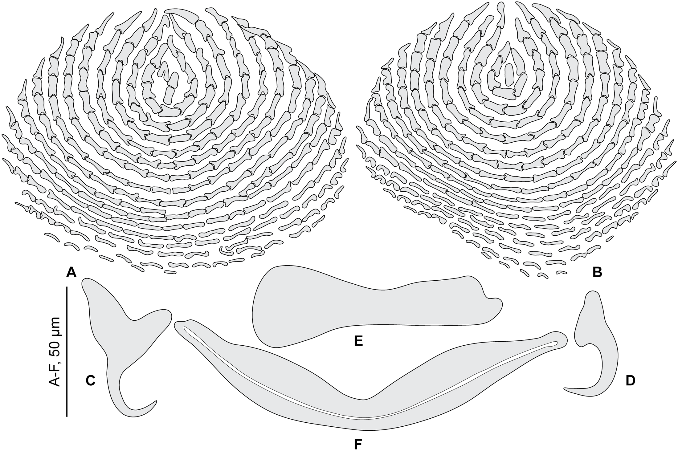 Figure 7 of paper Pseudorhabdosynochus enitsuji from Mycteroperca costae, squamodiscs and haptoral parts A, B, squamodiscs (A, ventral; B, dorsal). C-F, haptoral parts (C, ventral anchor; D, dorsal anchor; E, lateral bar; F, ventral bar). All, MNHN HEL562, Tunisia, Berlese.